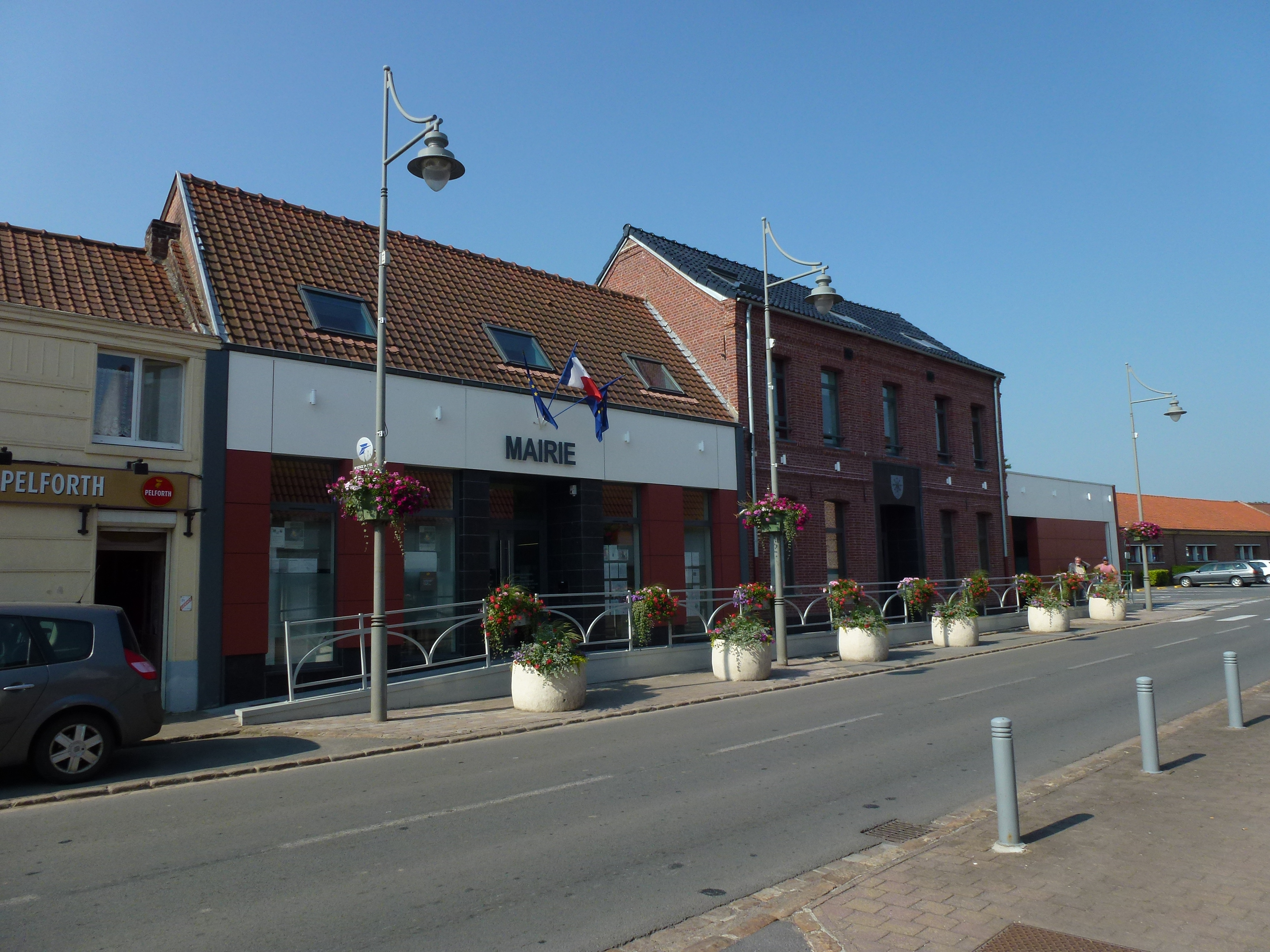 Beuvry-la-Forêt (Nord, Fr) mairie